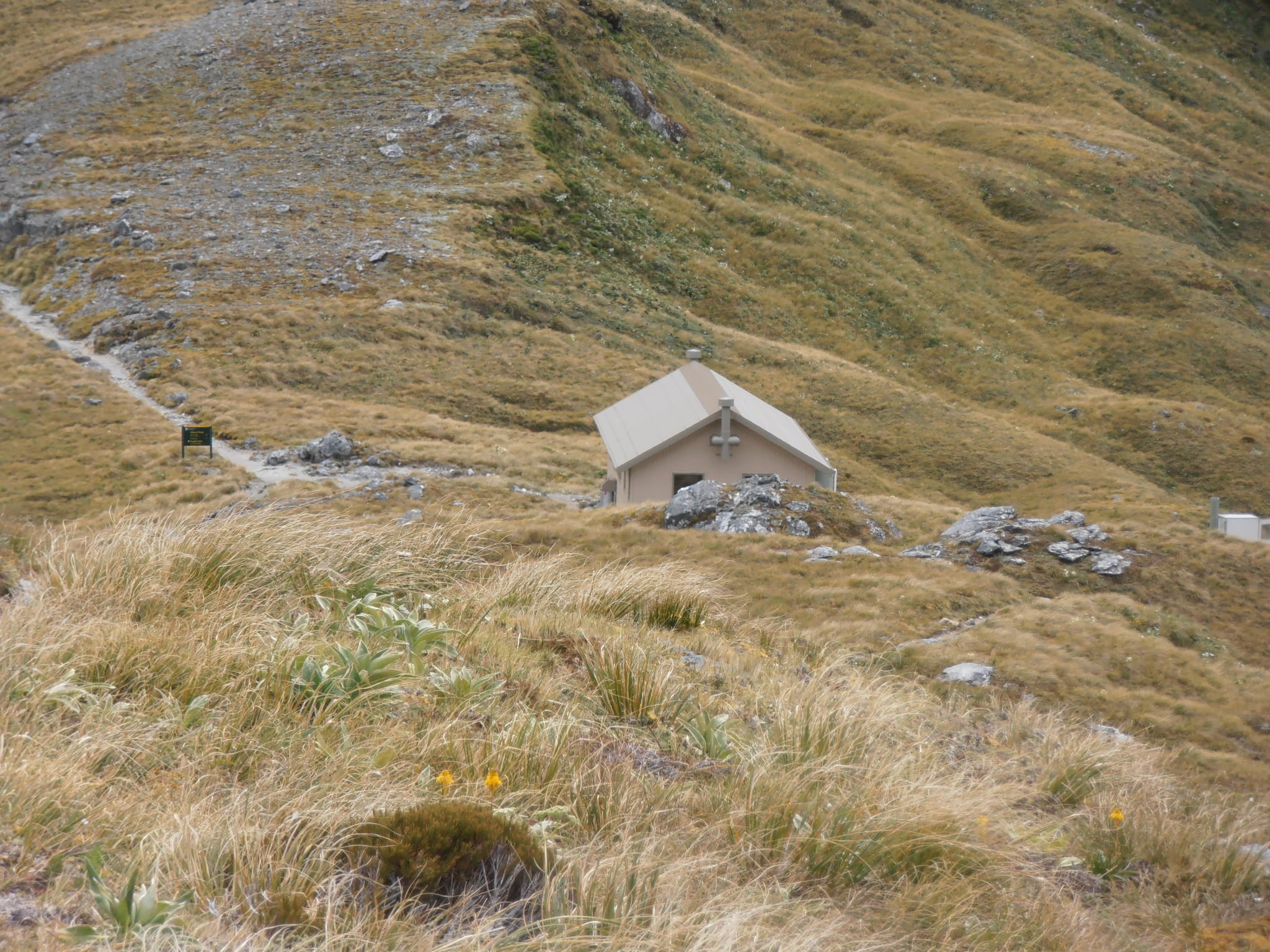 Shelter on the Mackinnon Pass.